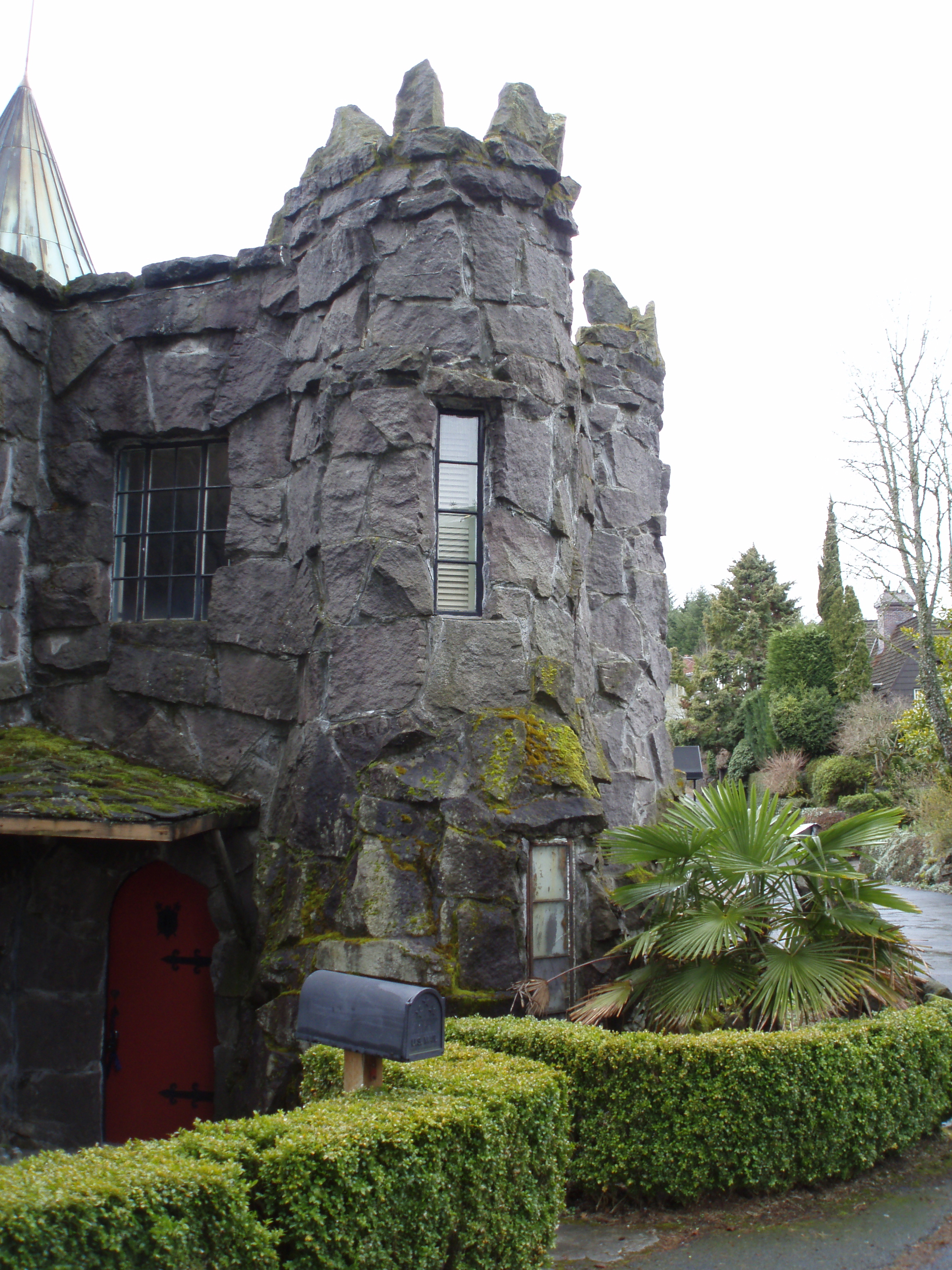 The exterior of Canterbury Castle in Portland, Oregon, before demolition